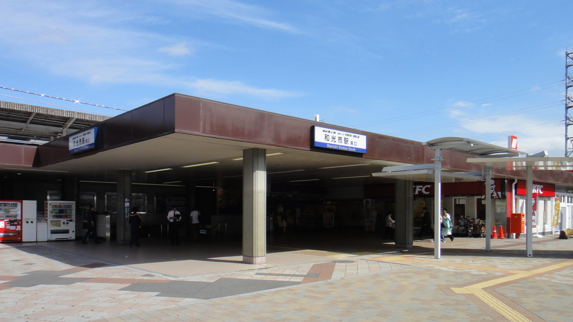 The south entrance of Wakoshi Station on the Tobu Tojo Line in Saitama Prefecture, Japan